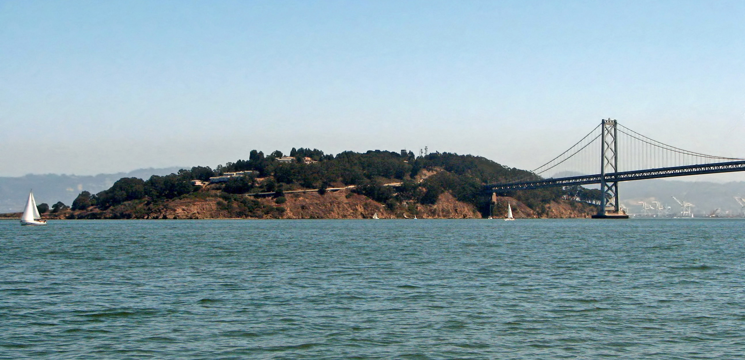 Yerba Buena Island, San Francisco Bay, California, USA